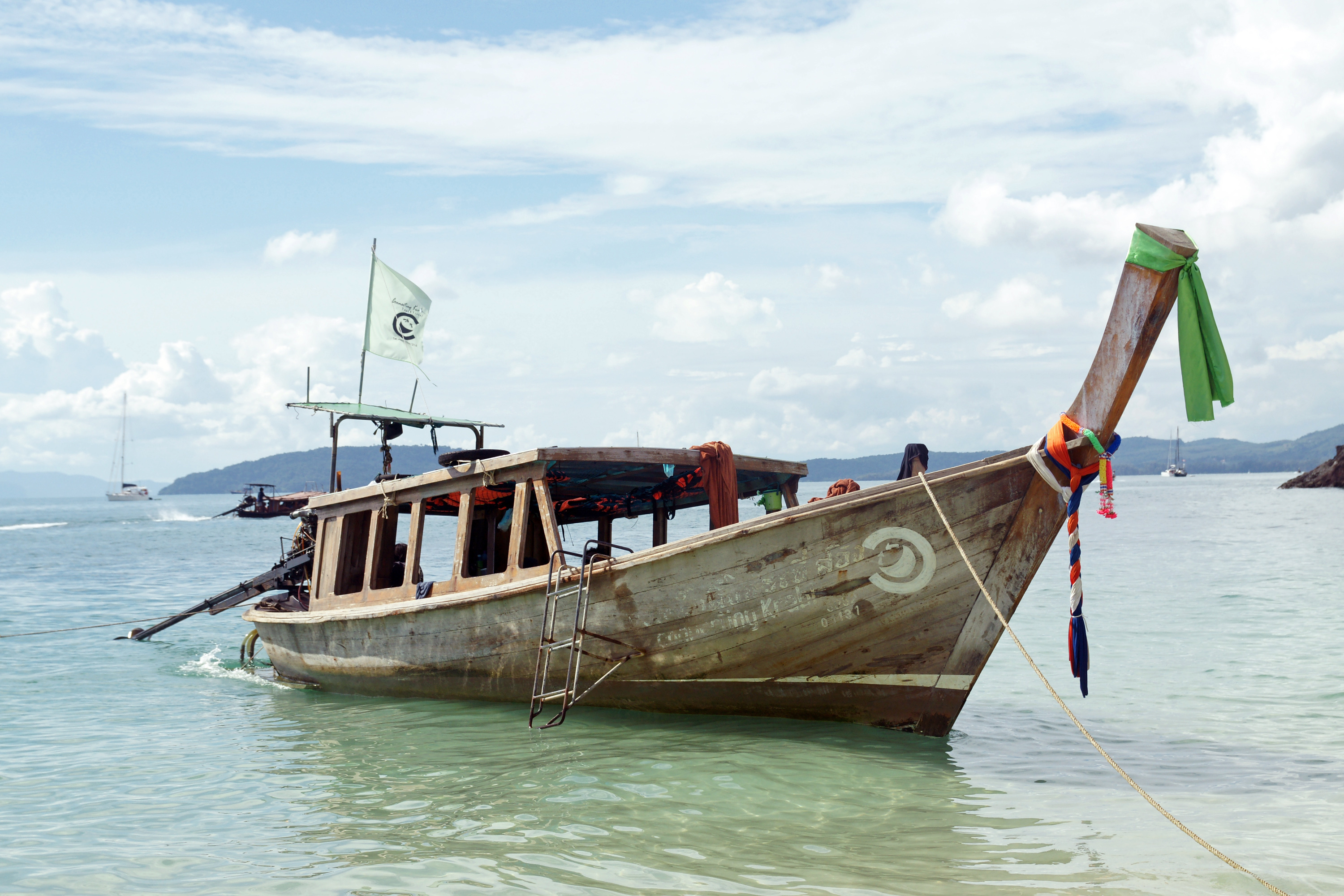 Long-tail boat in Phra Nang beach, Krabi, Thailand.